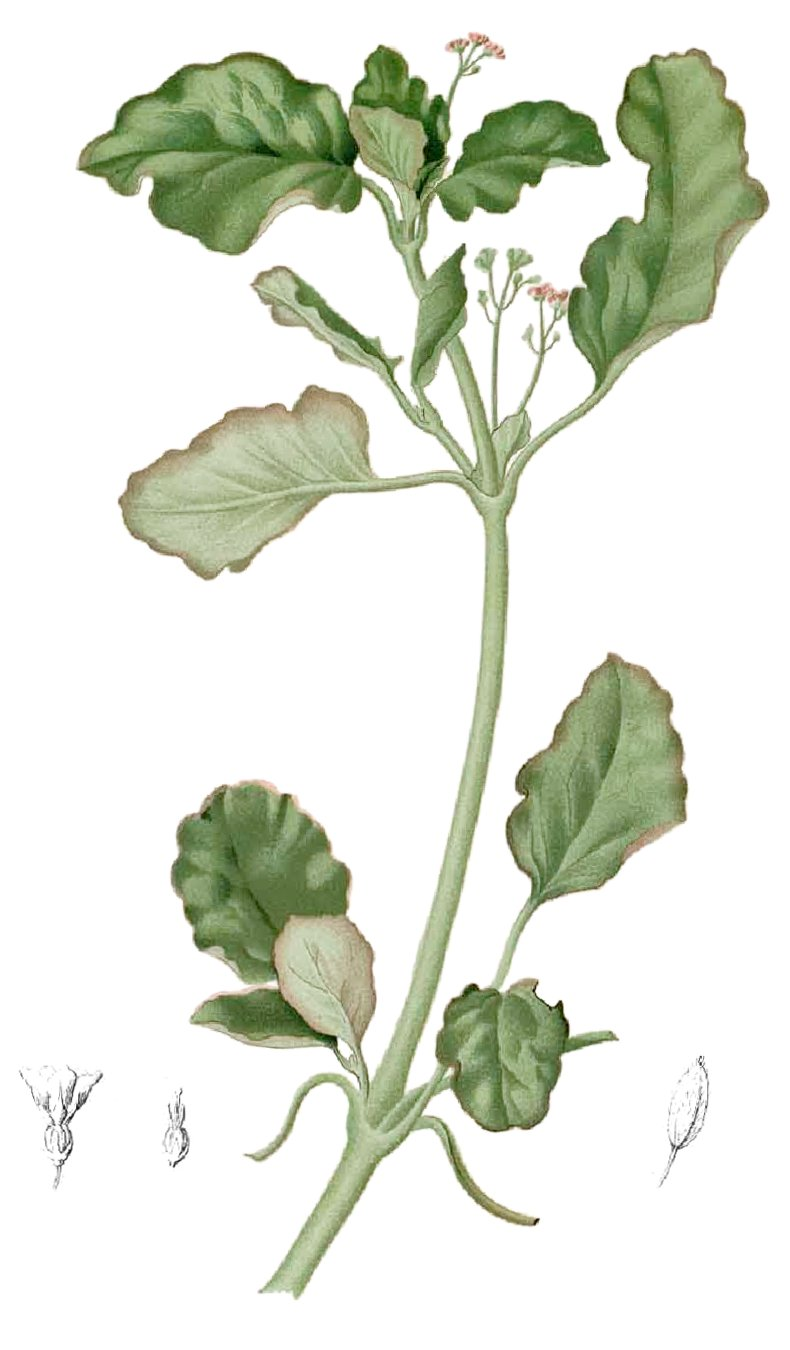 Plate from book